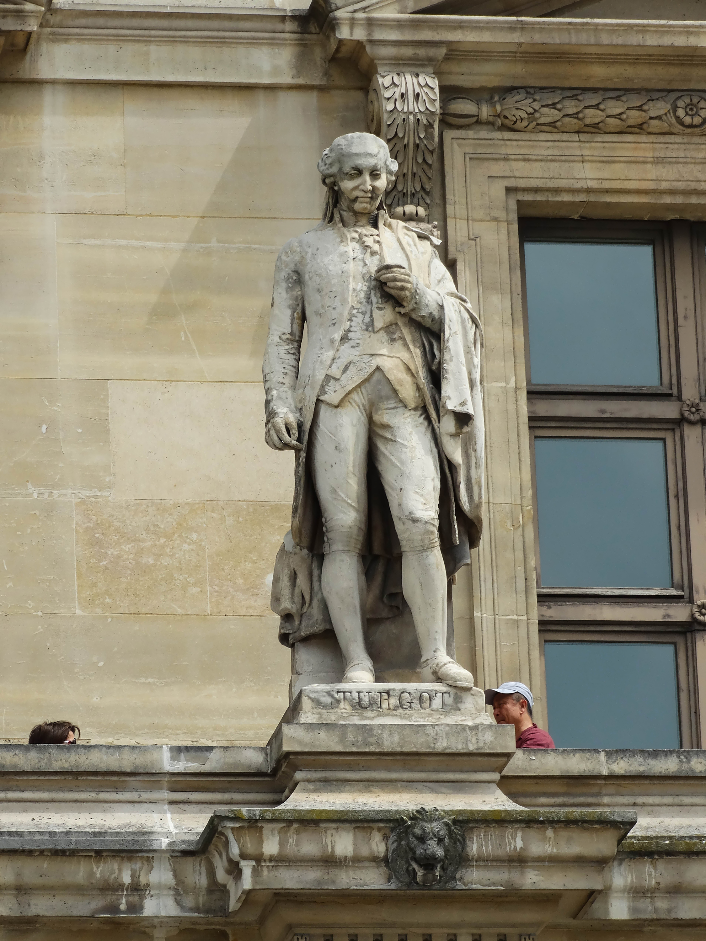 A statue of Anne-Robert-Jacques Turgot created by Pierre Travaux that now stands on the Aile Colbert of the former Louvre Palace.